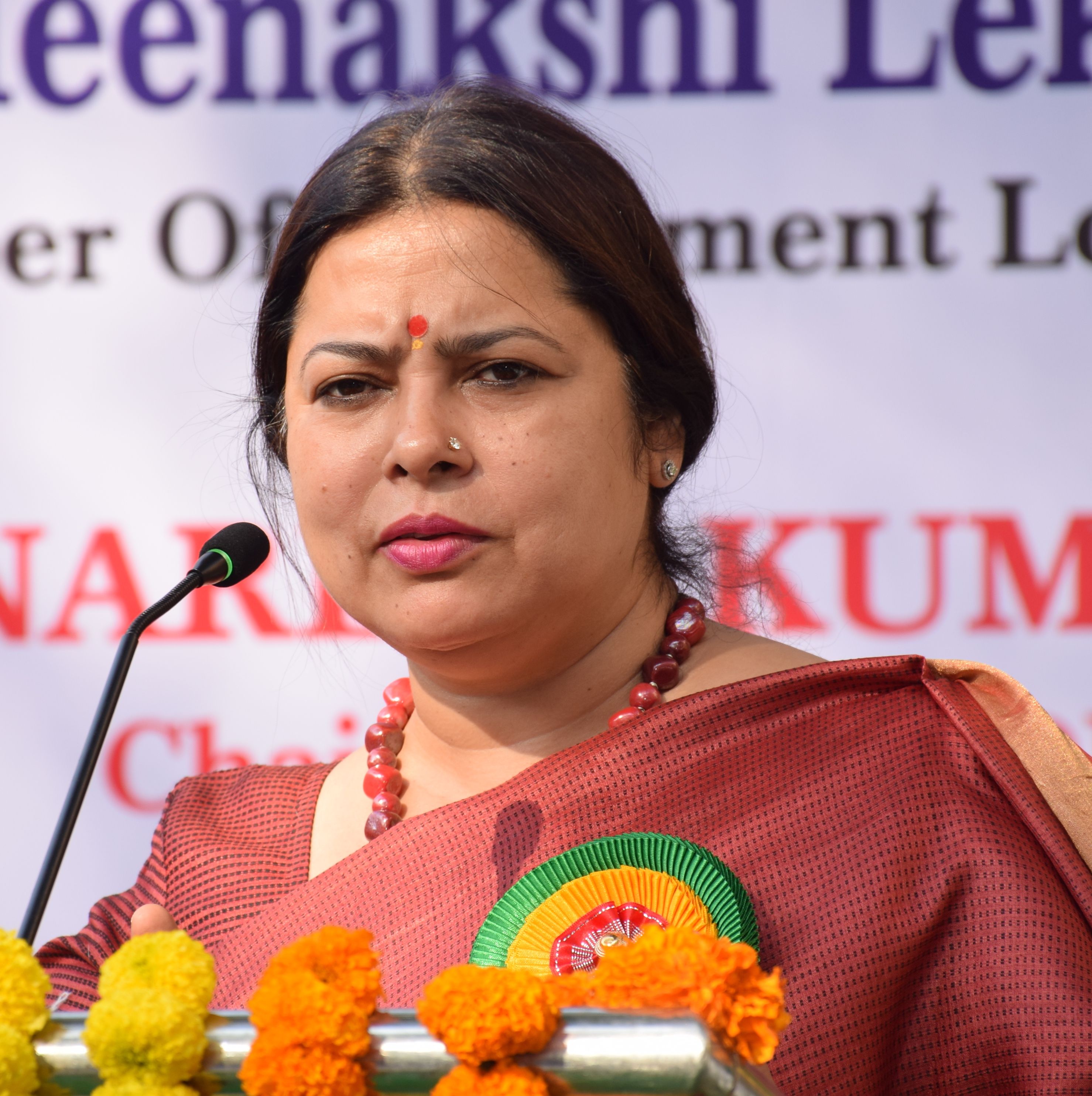 This file is being uploaded to substitute the existing introduction picture at her wikipedia page